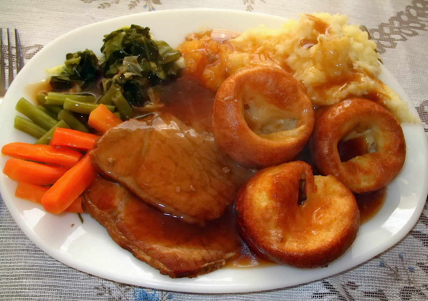 A traditional Sunday roast: roast beef, vegetables, mashed potatoes, Yorkshire pudding and gravy.